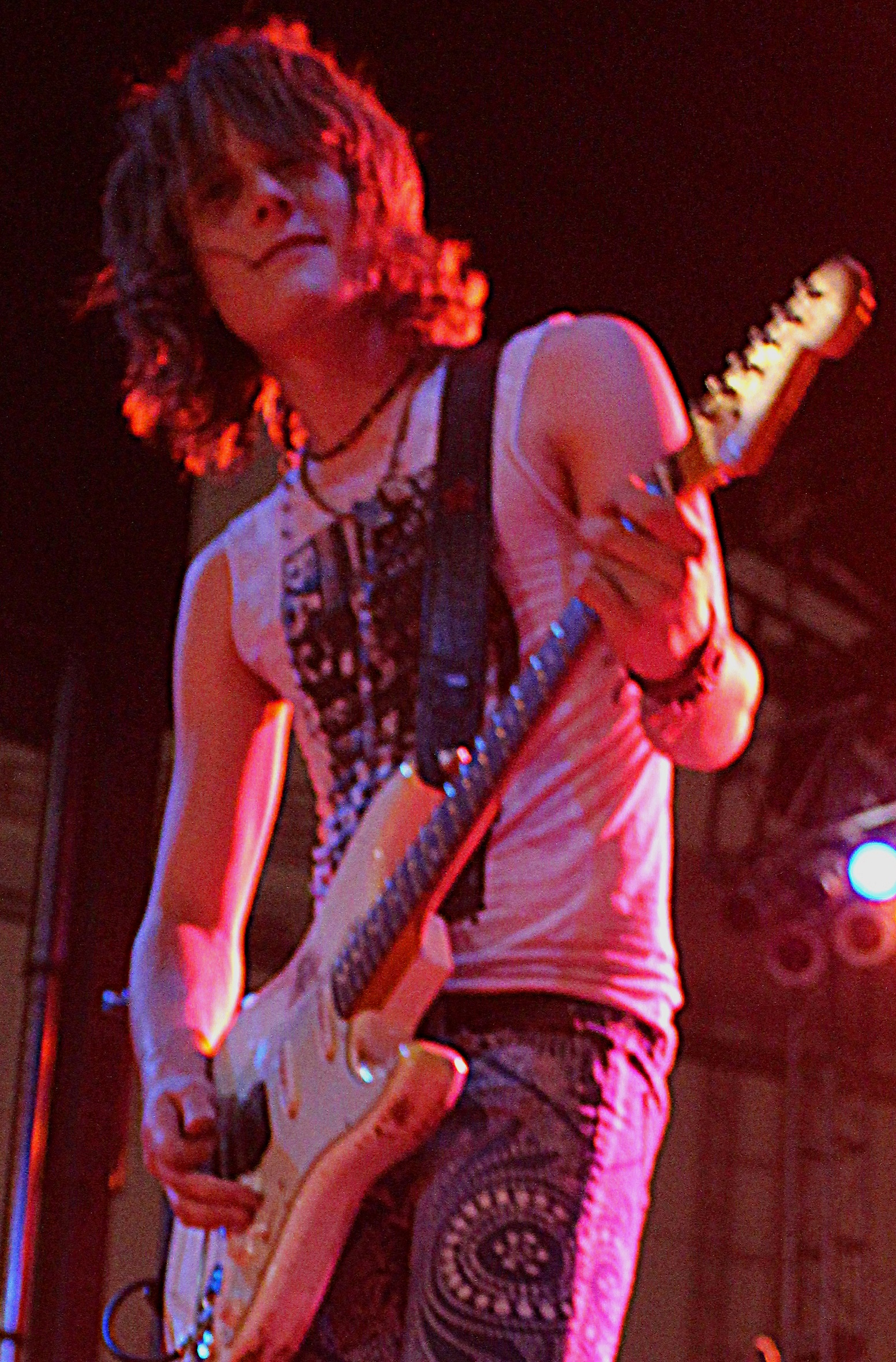 Bryant in 2013